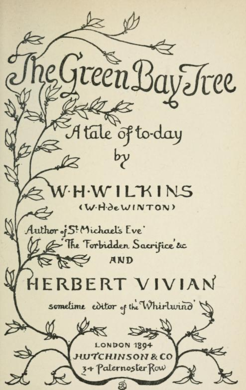 The title page of the 1894 book "The Green Bay Tree" written by W. H. Wilkins and Herbert Vivian